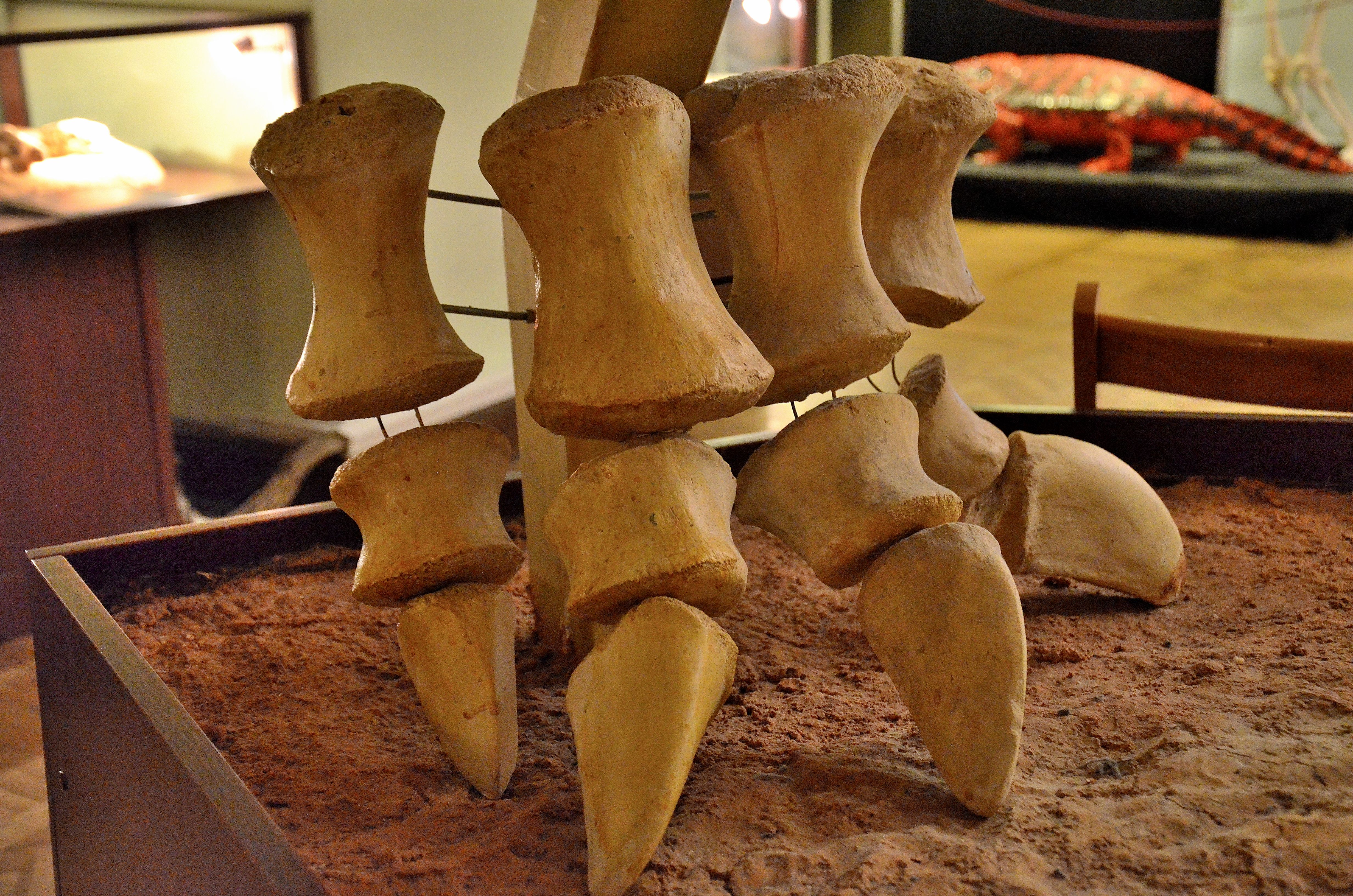 Opisthocoelicaudia skeleton. Museum of Evolution in Warsaw